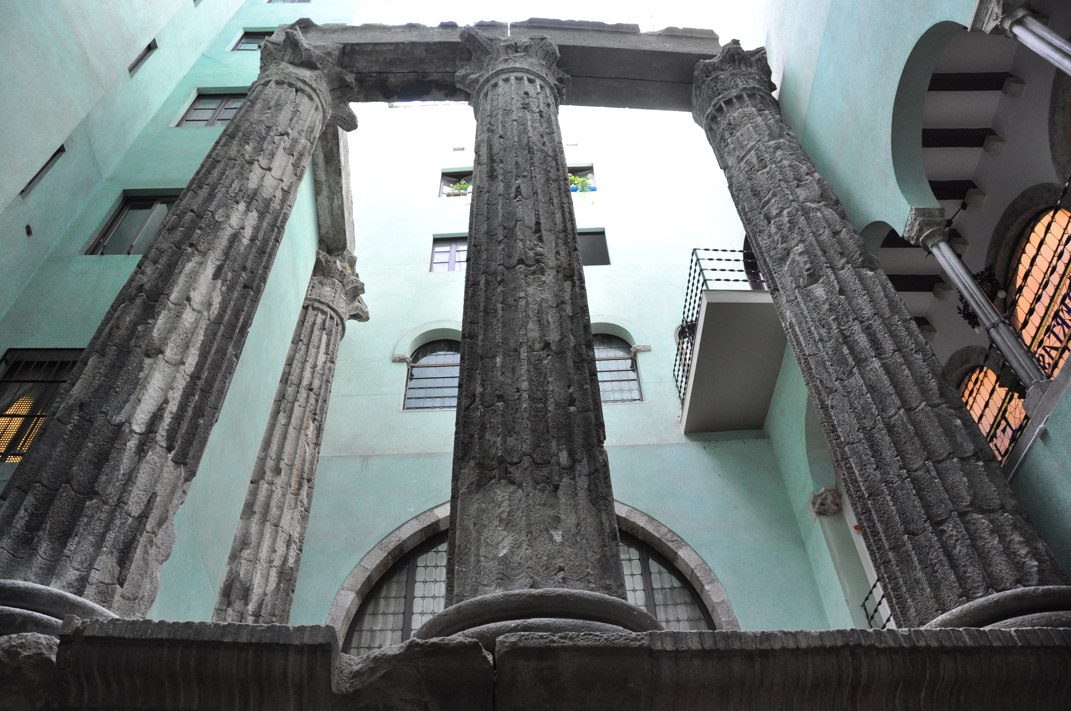 Interior of the Temple of Augustus in Barcelona